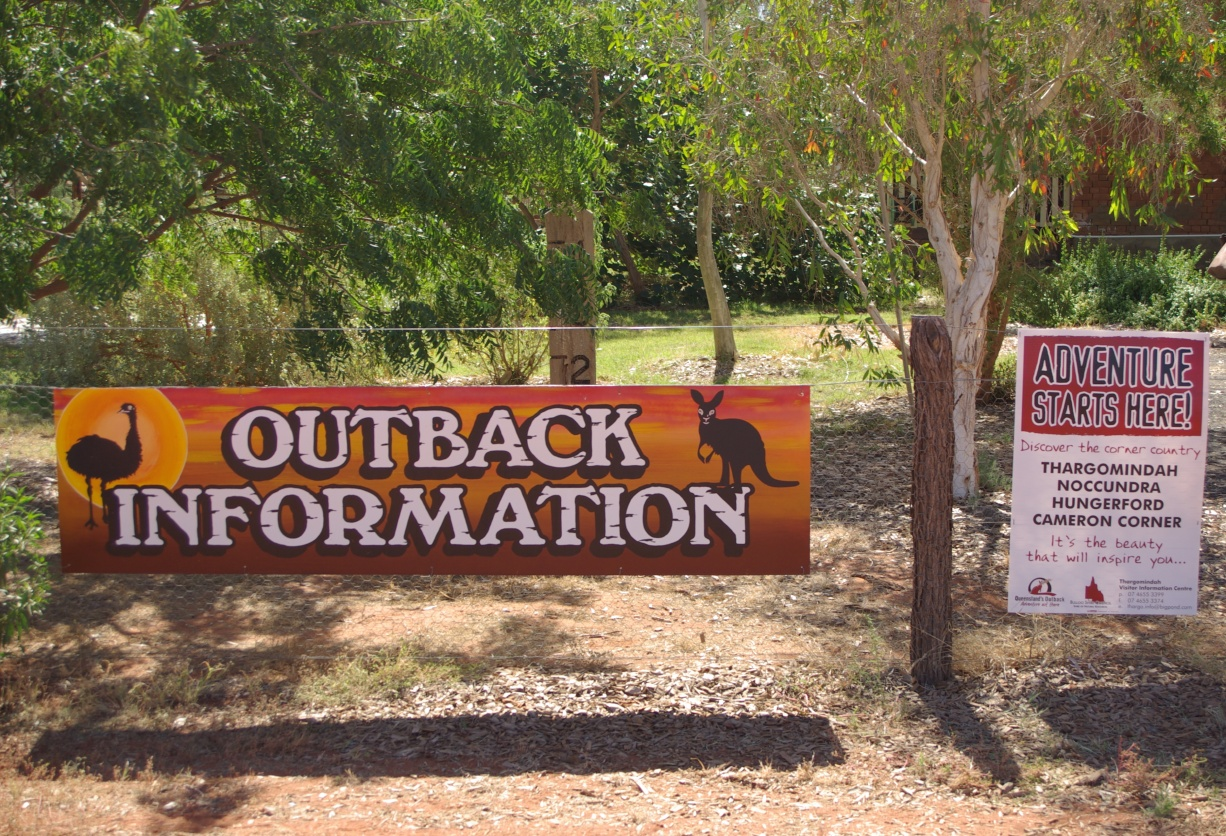 Tourist info Thargomindah.